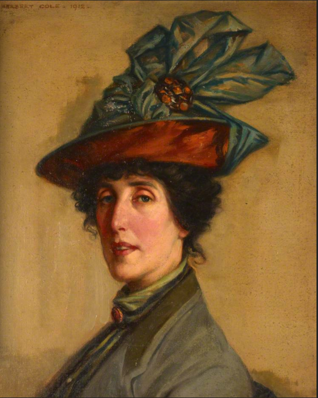 colour painting of Woman in hat